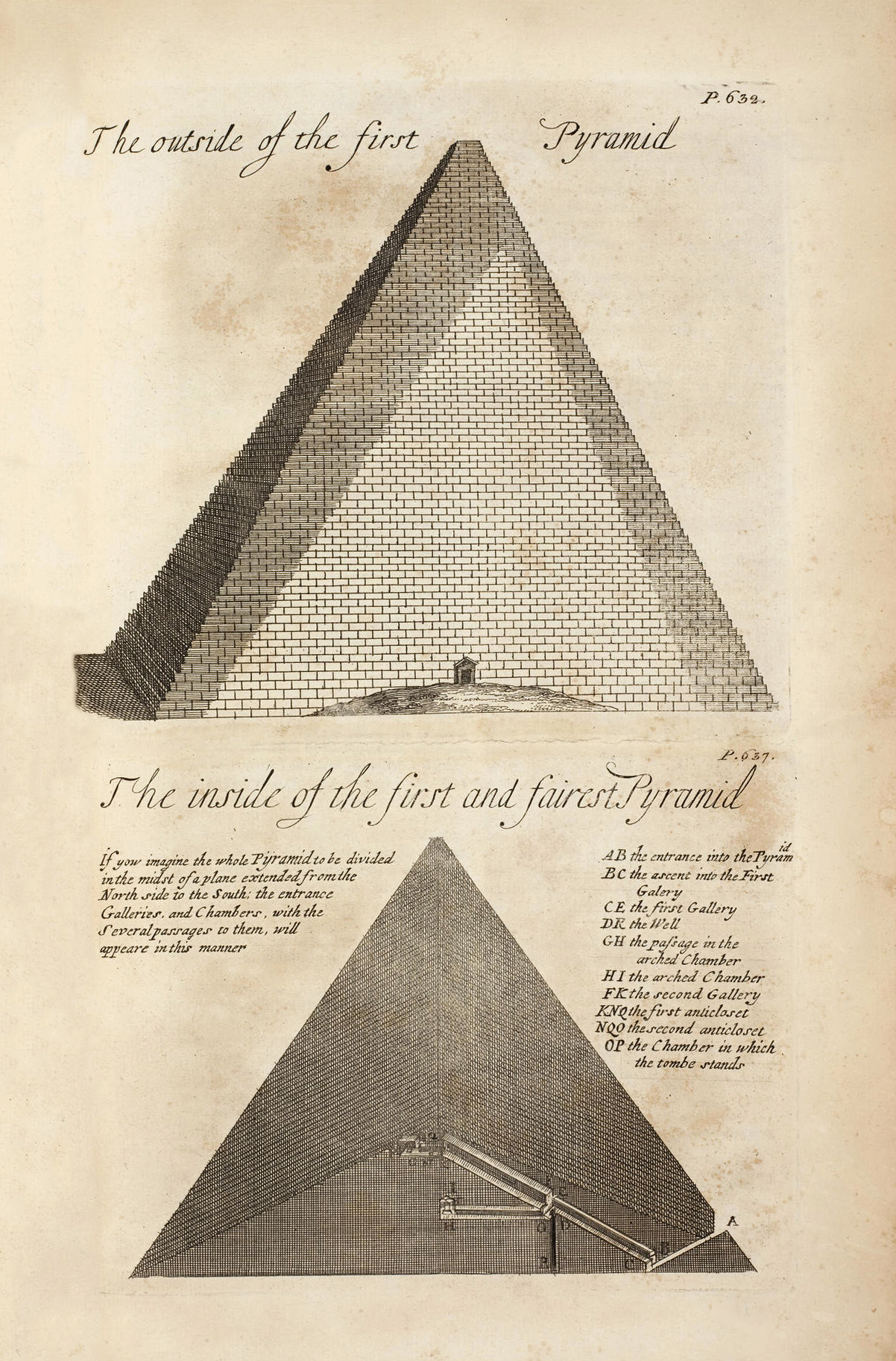 page 632 from Pyramidographia or, a Description of the pyramids in Egypt — London, 1752 by John Greaves.